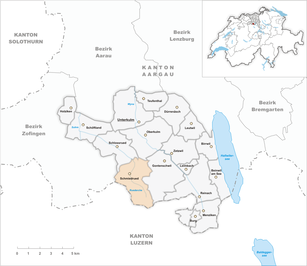 Municipality Schmiedrued